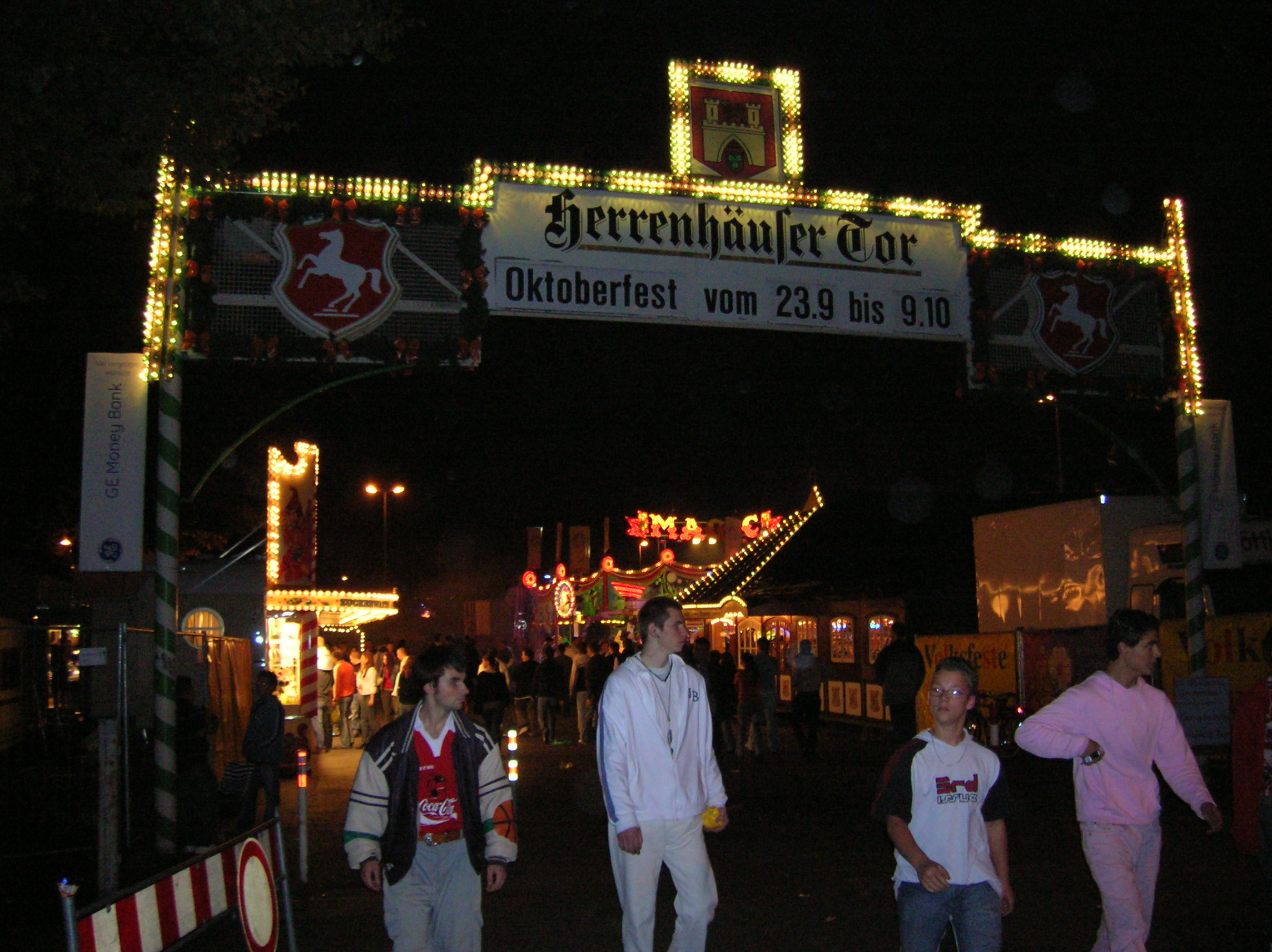 This photo was taken by Jon Masters (jcm) on 2005/09/24 at Oktoberfest Hannover following the discovery that the entry on wikipedia lacked a photo.